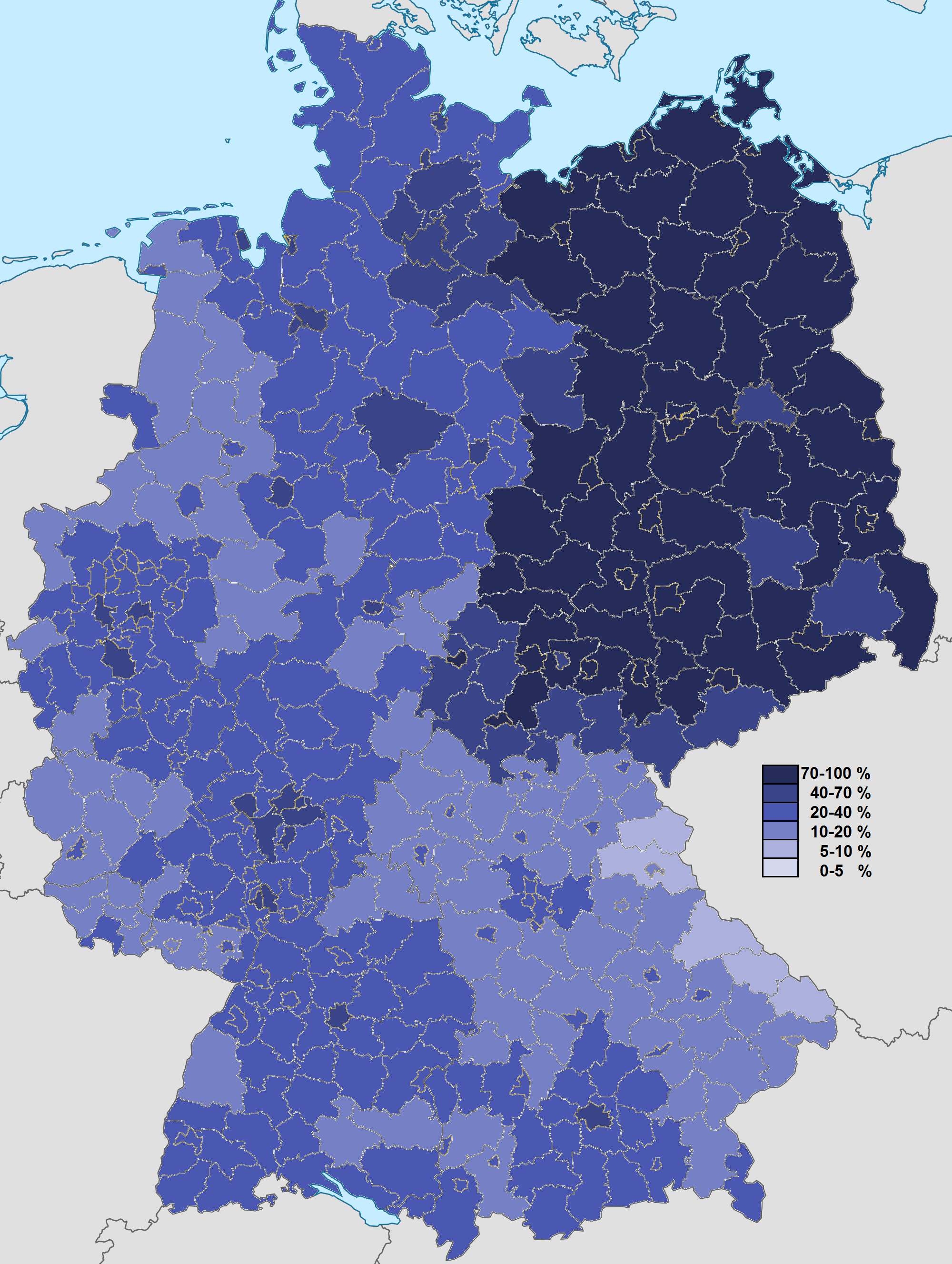 Percentage of non-religious (incl. "Other Religion" or "No Statement") in Germany by district from their 2011 census.